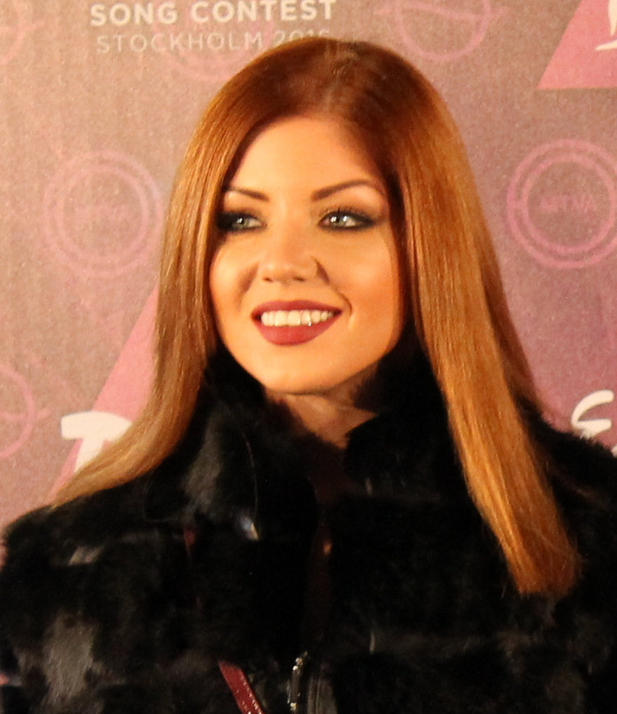 A Dal 2016 participant: Reni Tolvai